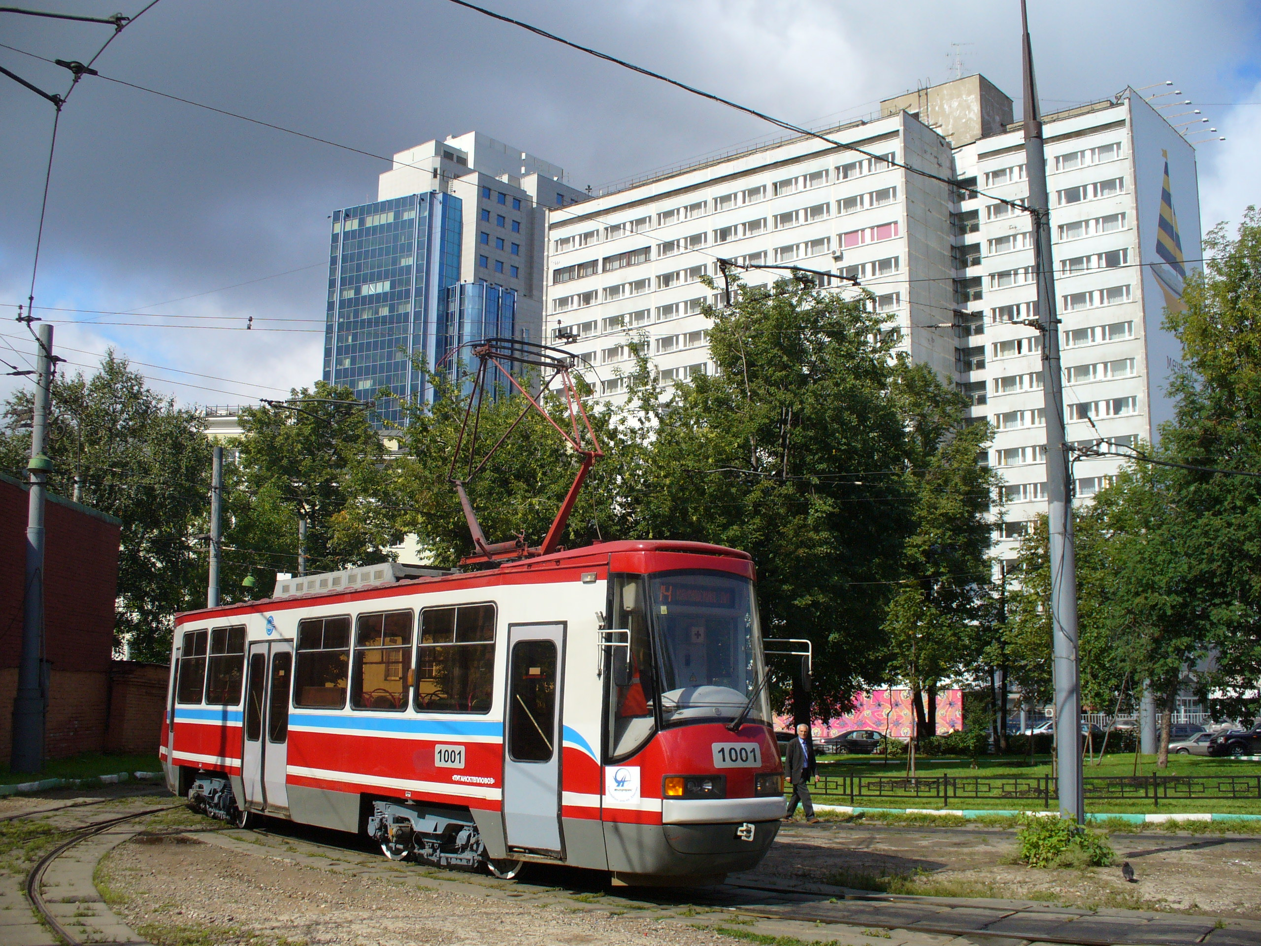 Tramcar LT-5 #1001, Moscow. Shot at the time of a presentation to foreign tourists; the car with passengers does not work since 2005.)